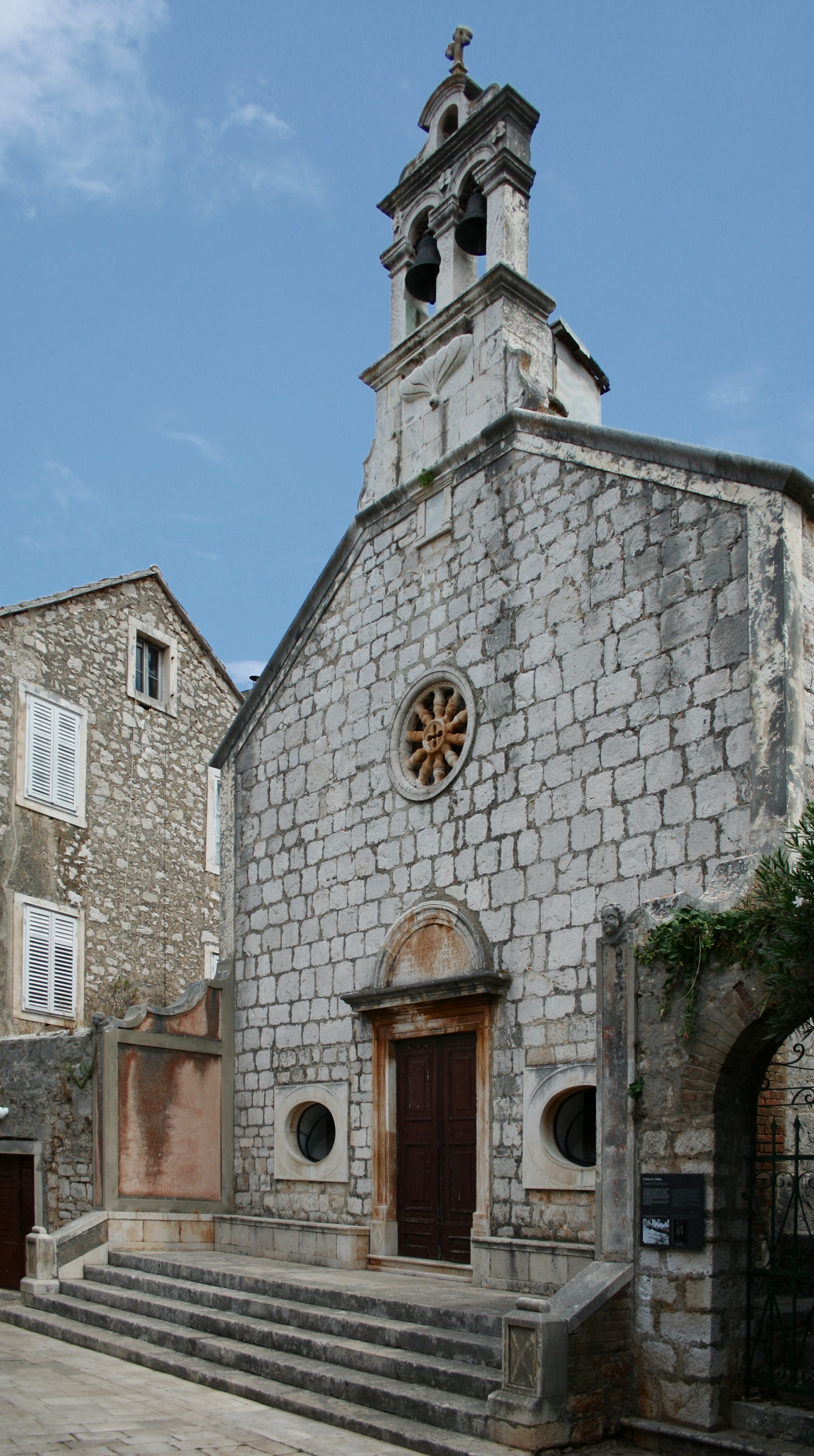 St Roch church in Stari Grad